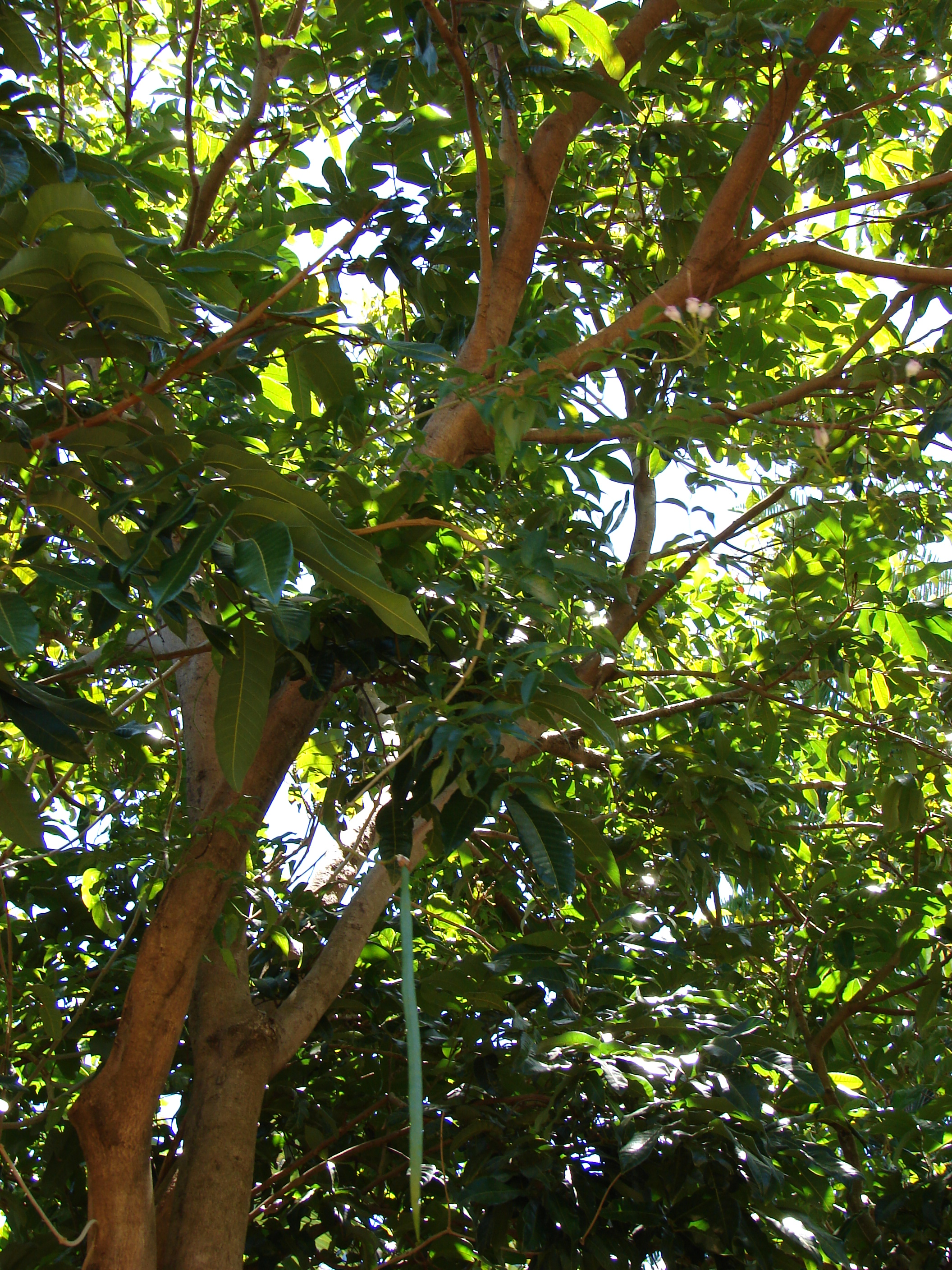 Dimocarpus longan (habit). Location: Maui, Makawao